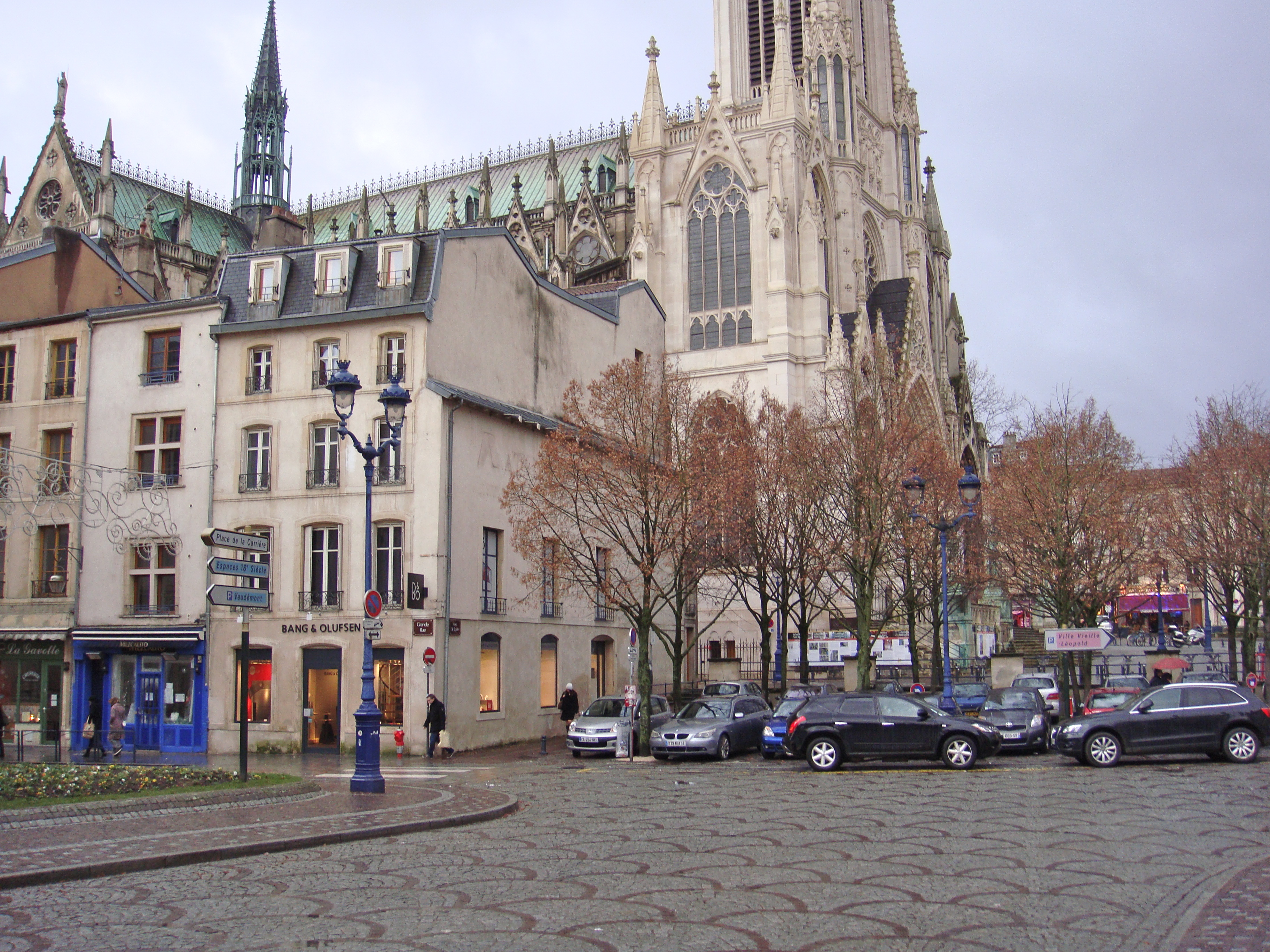 Nancy